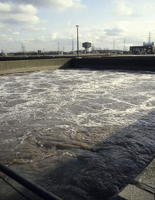 Beckton STP: Activated Sludge Tank The primary effluent from the settling tanks (1481890) is now largely free of solid matter, but contains much dissolved organic matter. In these tanks it is vigorously aerated so that micro-organisms can convert this to Carbon Dioxide and Water. From here the liquid goes to 1481916 to settle. The name 'Activated Sludge' refers to the fact that the tanks are seeded with the sludge from the previous generation of activation. See 1481923.